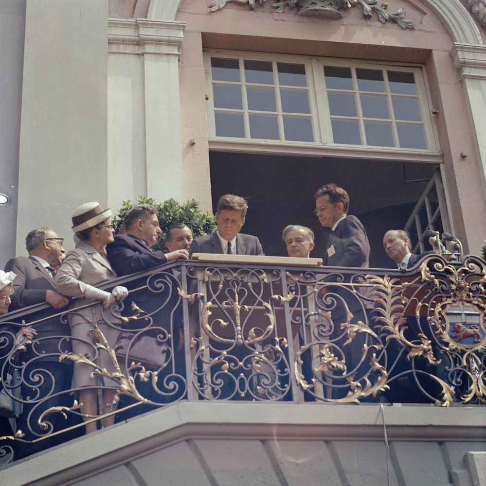 President John F. Kennedy (center) signs the Golden Book outside Altes Rathaus (Old City Hall) in Bonn, West Germany (Federal Republic). Standing right of President Kennedy (L-R): Mayor of Bonn, Wilhelm Daniels; Director of Radio in the American Sector (RIAS) in Berlin and translator for the President, Robert Lochner; U.S. Chief of Protocol, Angier Biddle Duke.